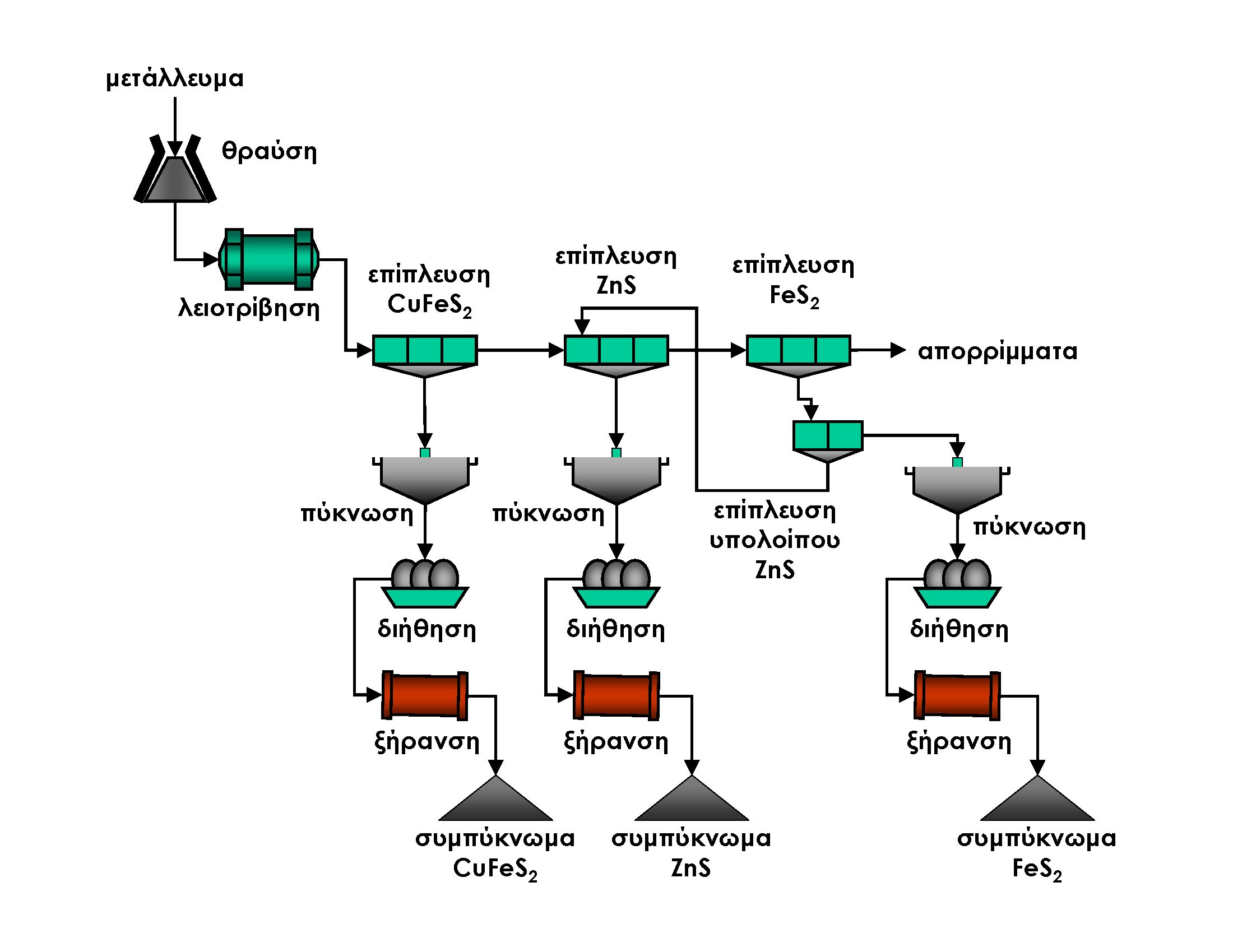 Cu-Zn-FeS2) flotation diagra, in Greek